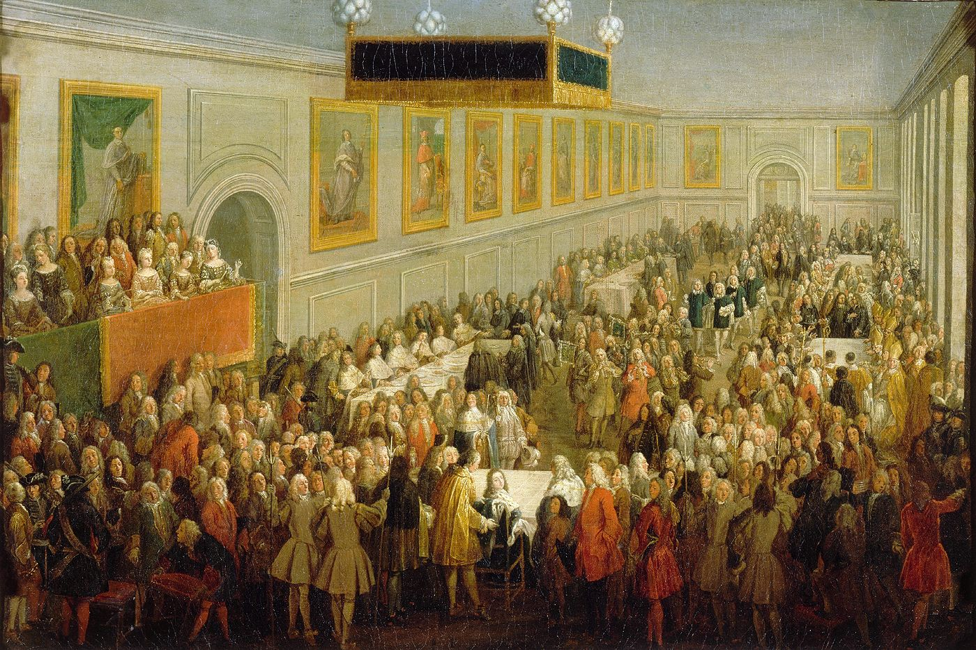 Feast given after the coronation of Louis XV of France